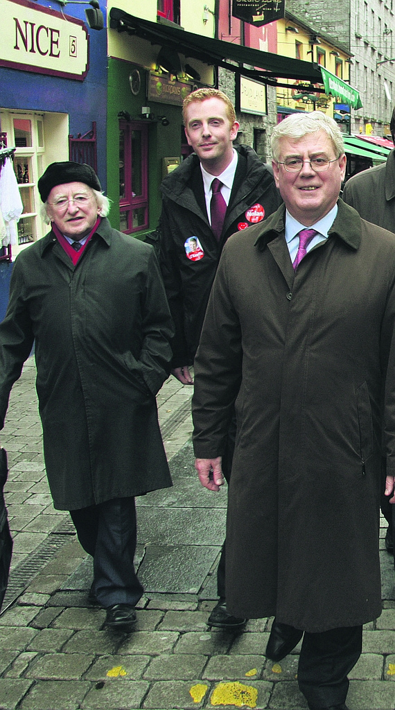 Irish Labour Party politicians Michael D. Higgins (left), Derek Nolan (centre), and party leader Eamon Gilmore (right), during the 2009 local elections campaign, in which Nolan took a seat on Galway City Council for the first time. Nolan was later selected to run for the Labour Party in the Galway West constituency in the Irish general election, 2011, hoping to succeed Higgins.